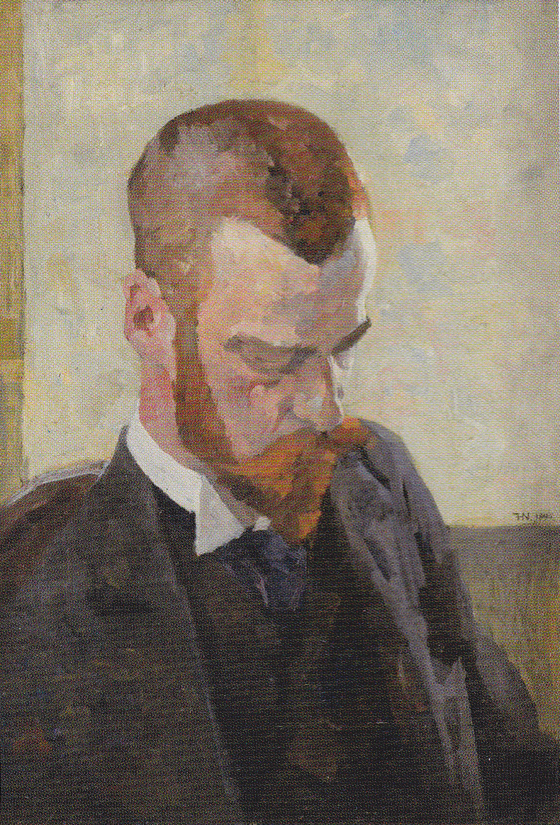 Dutch writer Frans Coenen (1866-1936)